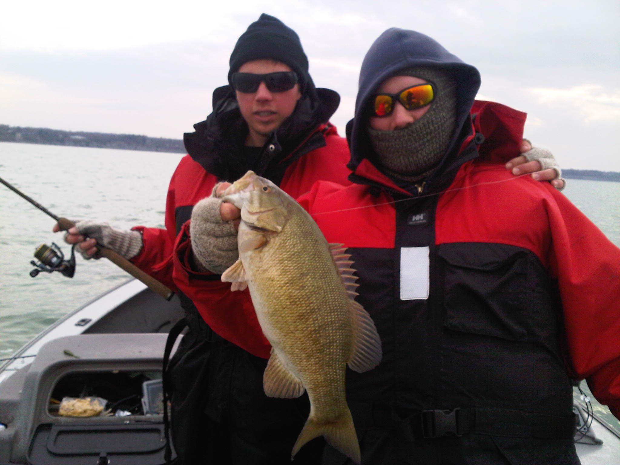 Smallmouth Bass Fishing in the Fall